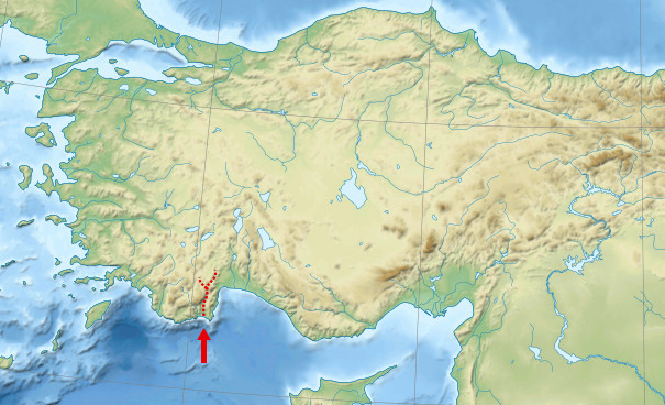 Salmo kottelati is only known from Alakır Stream in which located about 96 km southwest of the city of Antalya, a drainage of Mediterranean Sea in southern Anatolia. It inhabits in cold and clear water and moderate current, with gravel and pebble substrate.